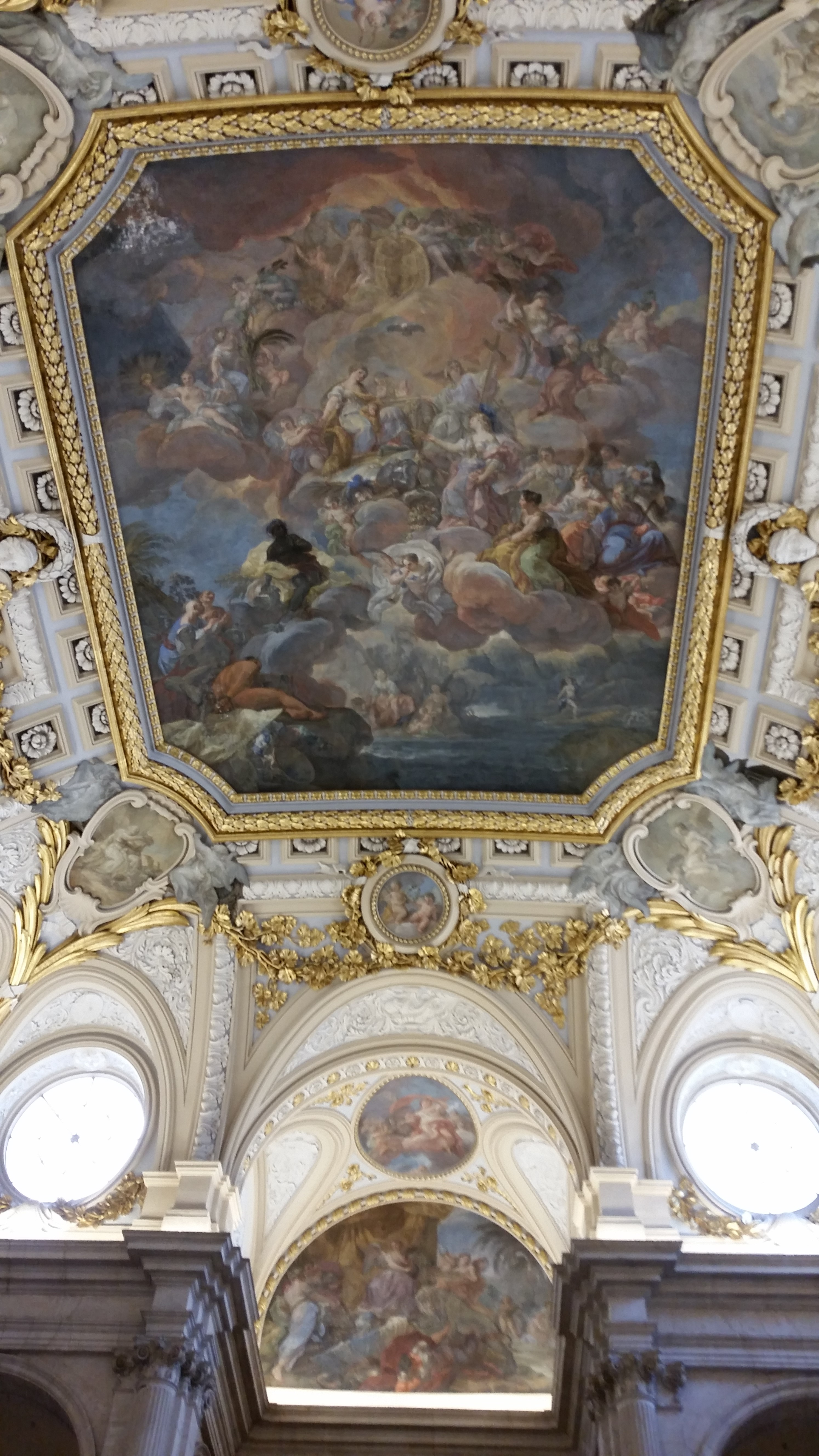 Royal Palace of Madrid Frescoe